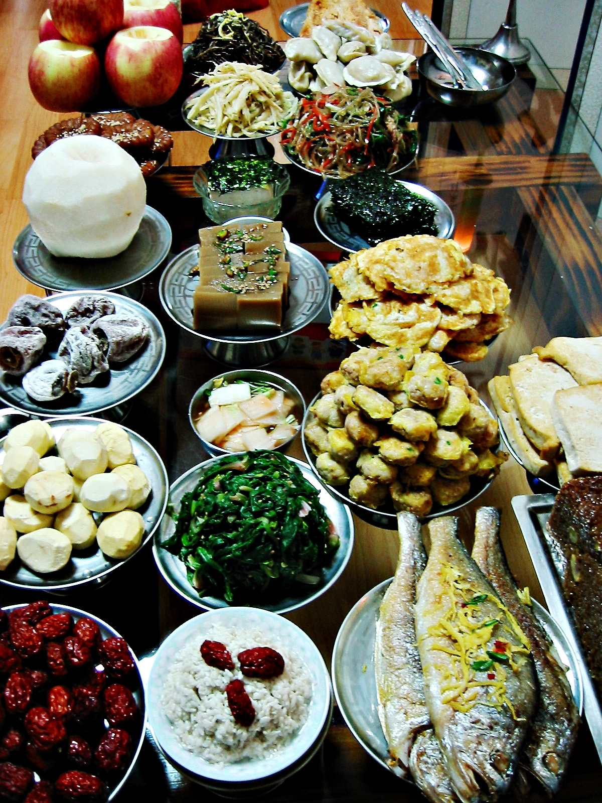 Typical Korean food dishes, such as the ones shown here, are explained through free culture classes at Yongsan's Army Community Service. The class, called Seoul Secrets-Korean Food Discovery, is held the second Wednesday of each month.